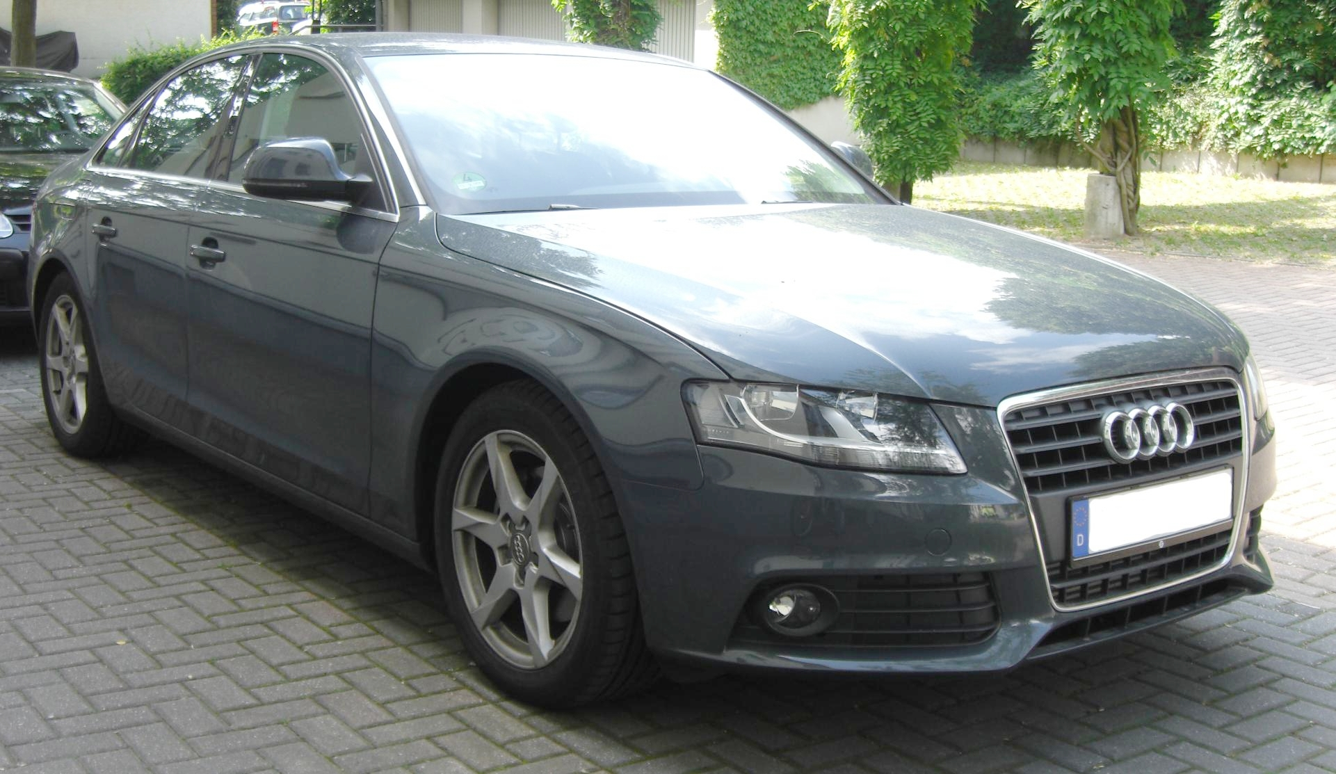 Audi A4 B8